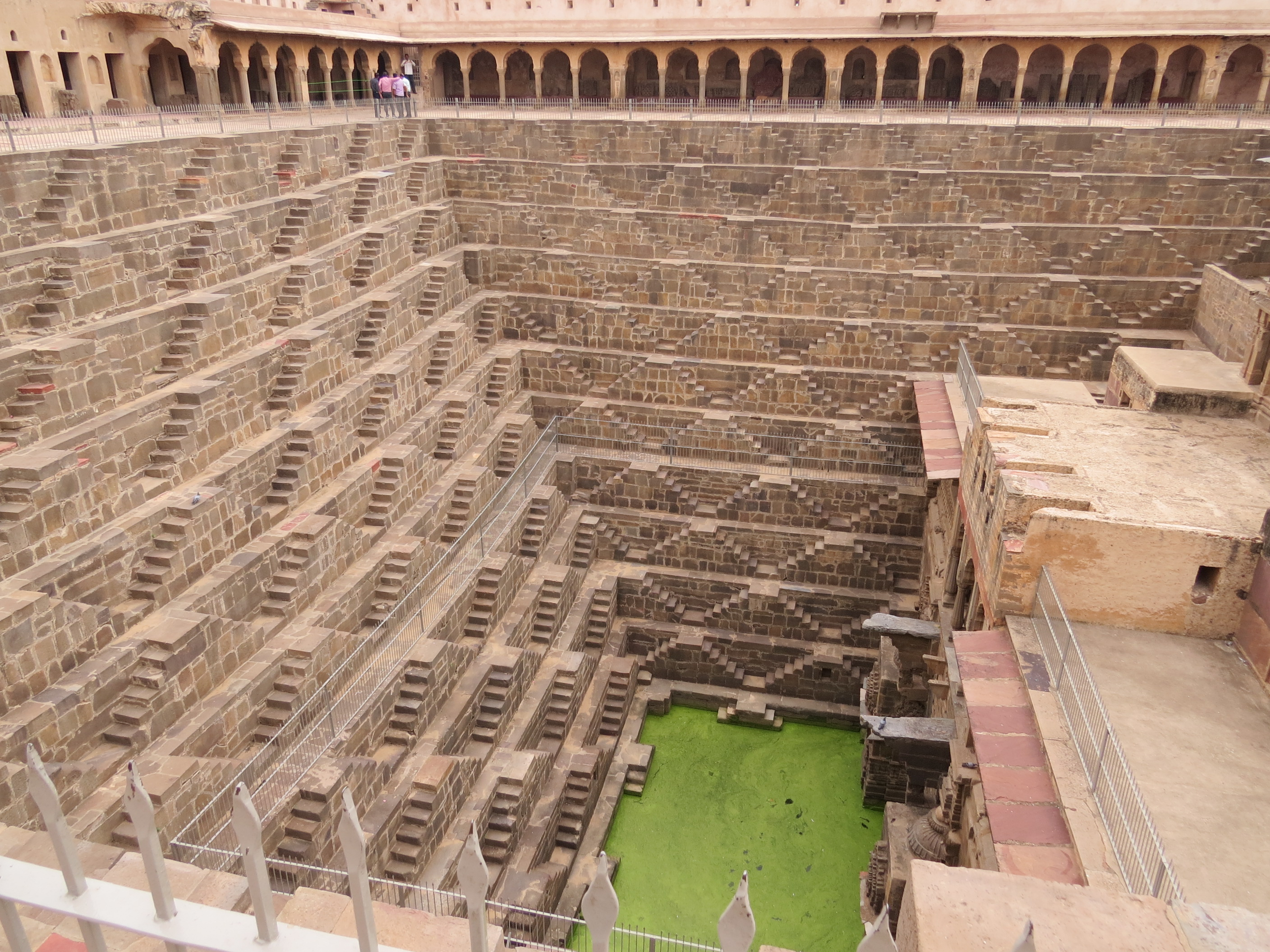 Aabhaneri.. It is the old way to store water by the king who ruled over the area. It is on the way to Jaipur. It is at an early age of restoration. Many ancient carvings still exist, but most were destroyed by more recent dynasty rulers.